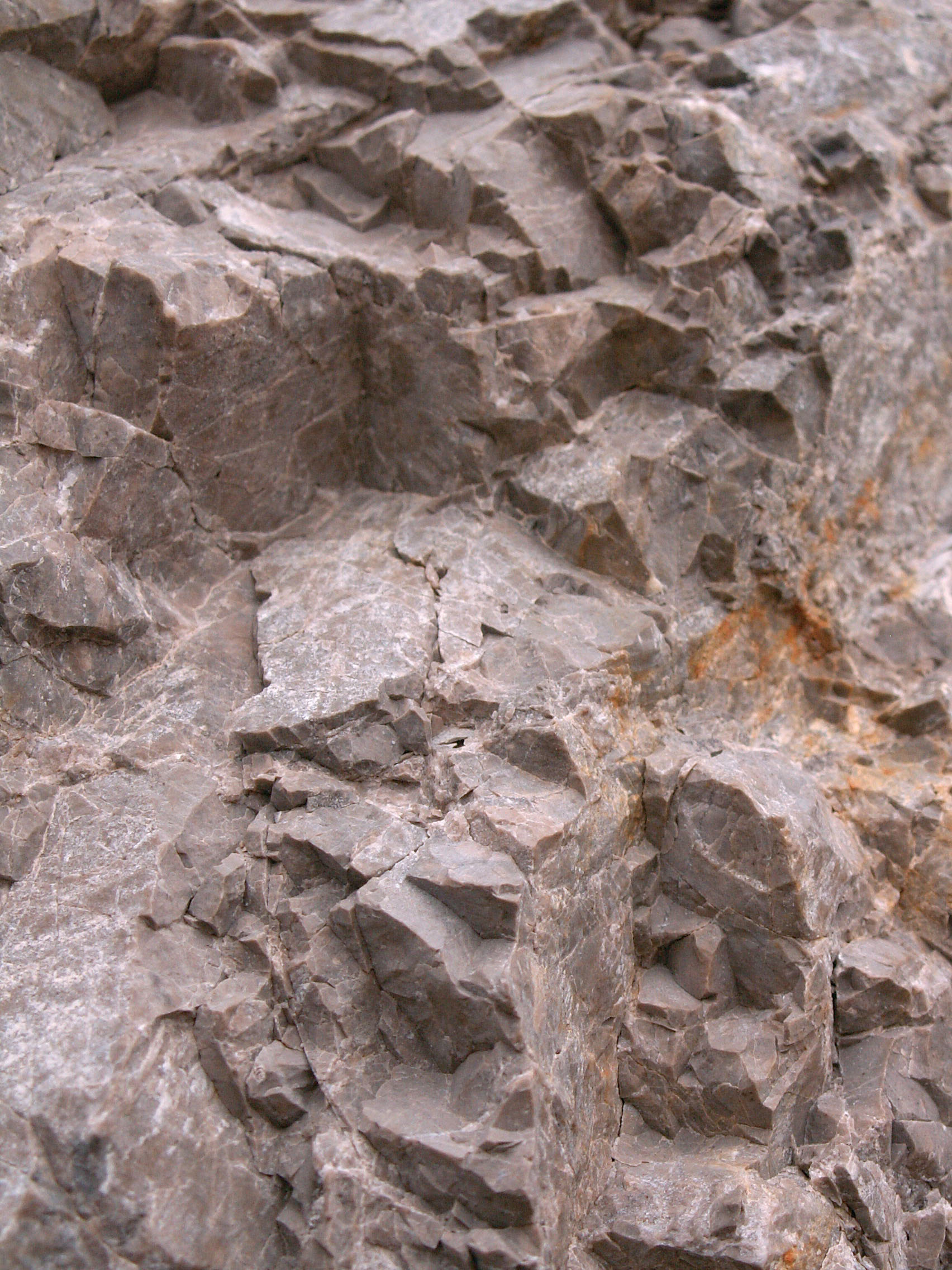 Rhombohedral cleavage in Upper Triassic Dolostone of the Choč Nappe (Hronic), equivalent of Ramsau dolomite, Sand-pit Dolinka pri Hradišti pod Vrátnom, Záhorie, Slovakia